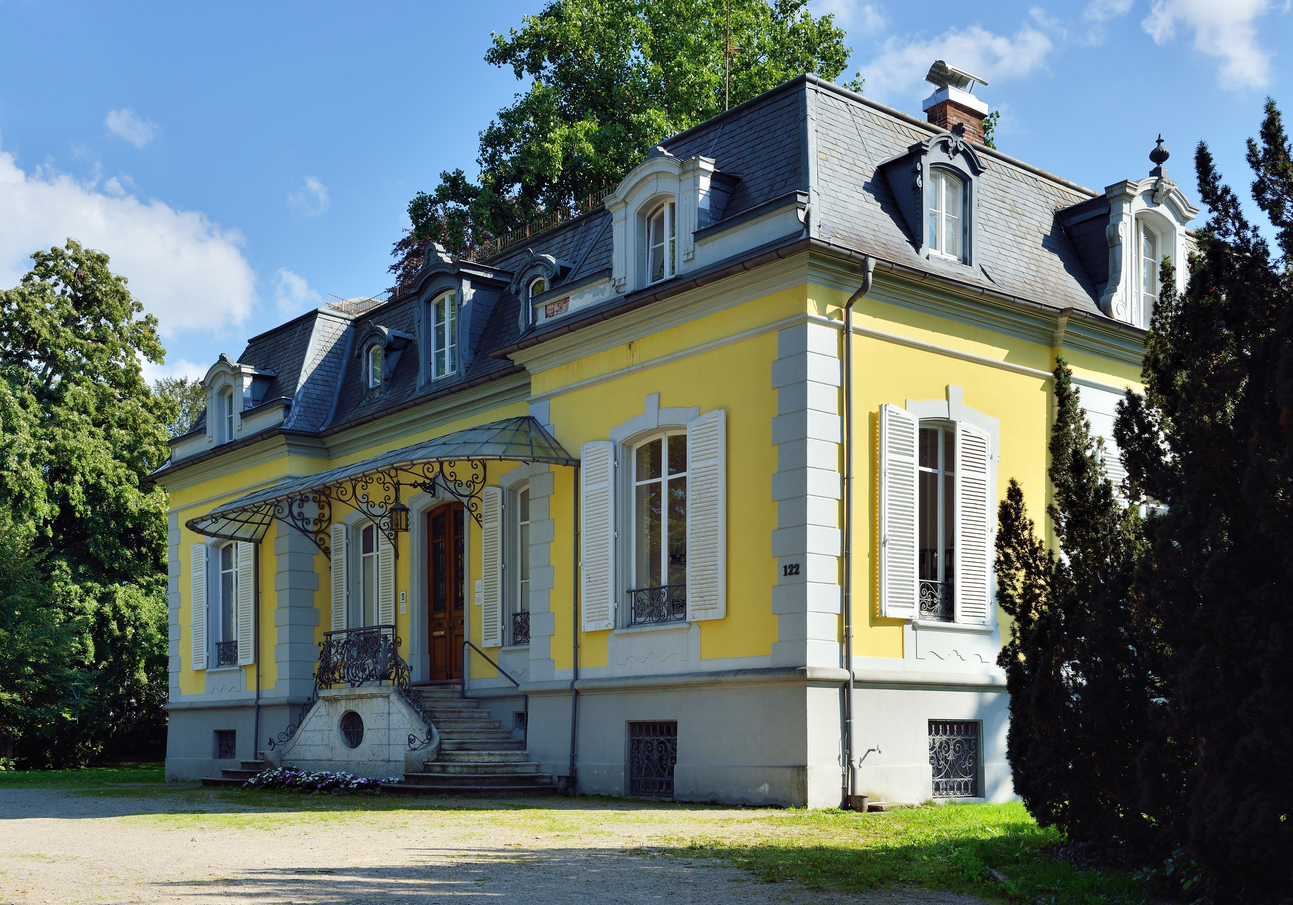 Lörrach: villa Aichele